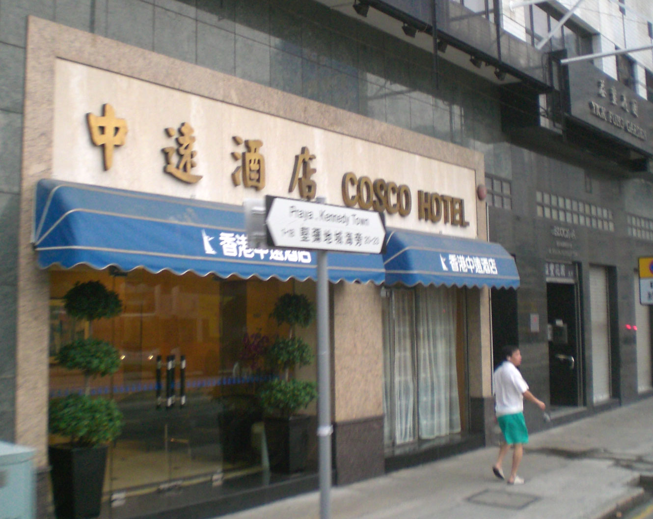 堅彌地城海旁 中遠酒店 Cosco Hotel, Kennedy Town Praya